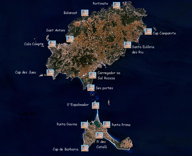 Defense Towers Location on Pitiüses Islands